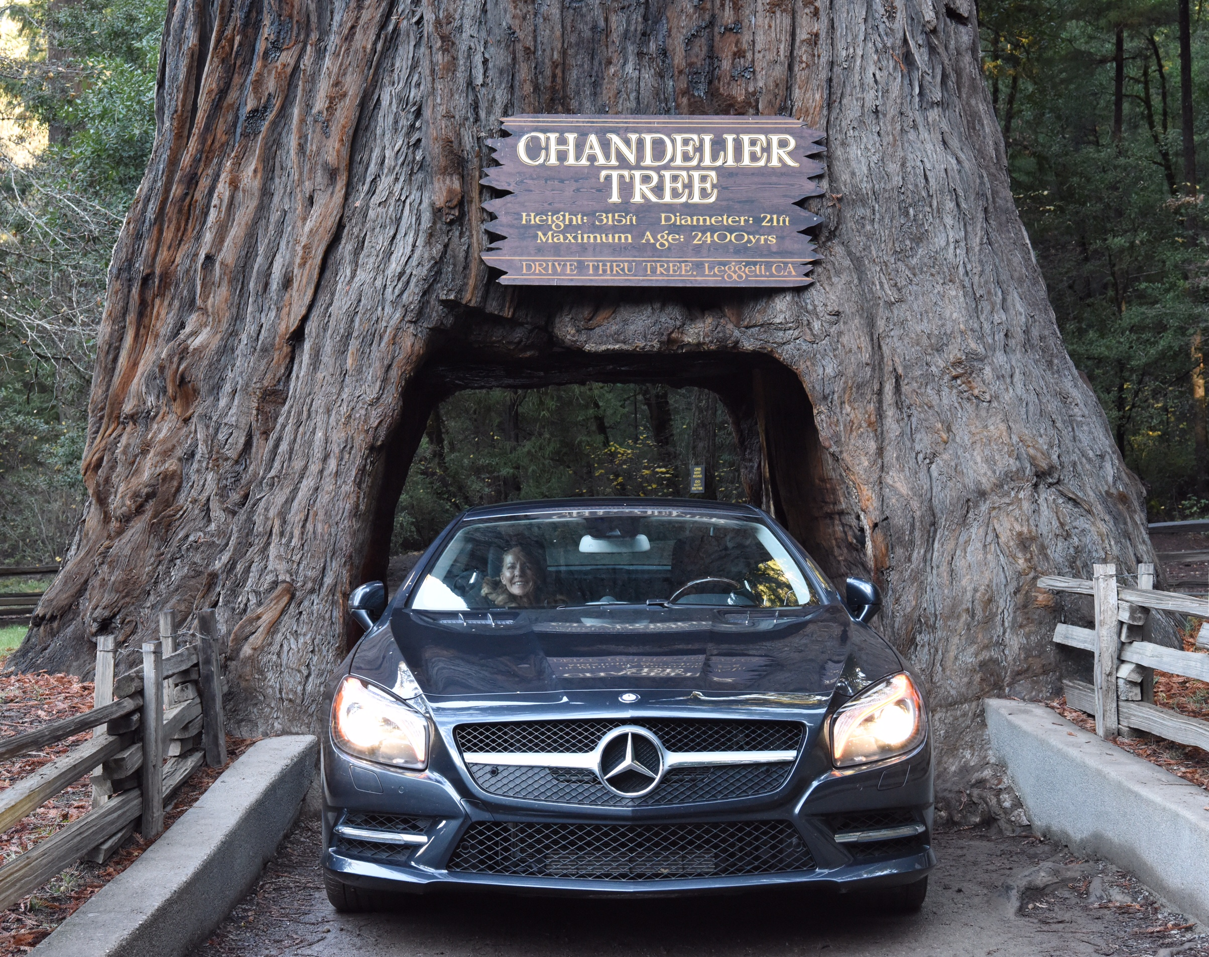 Car driving through the landmark Chandelier Tree in Leggett, CA